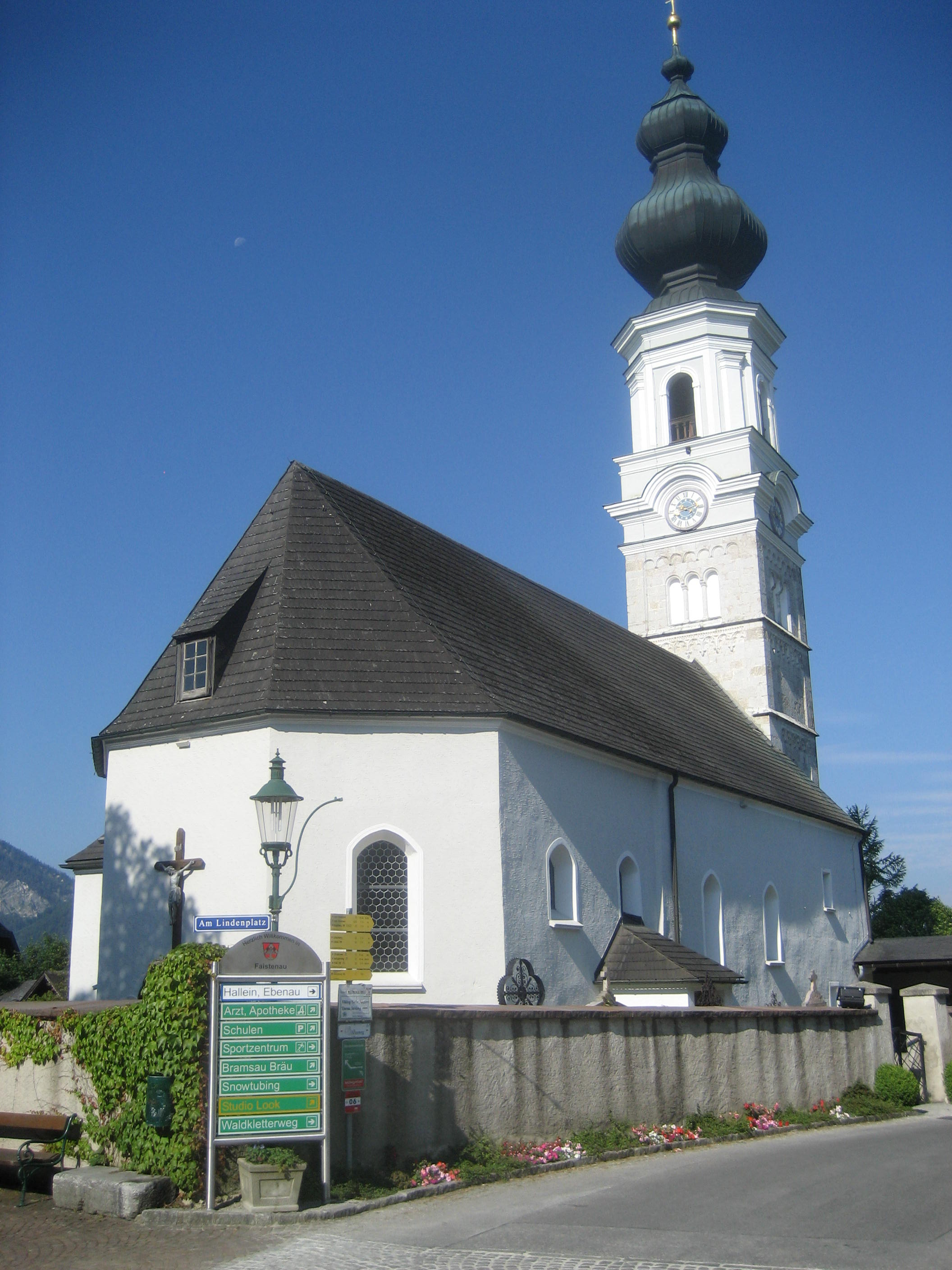 Cath. parish church St.James the Greater in Faistenau, Salzburg state, Austria